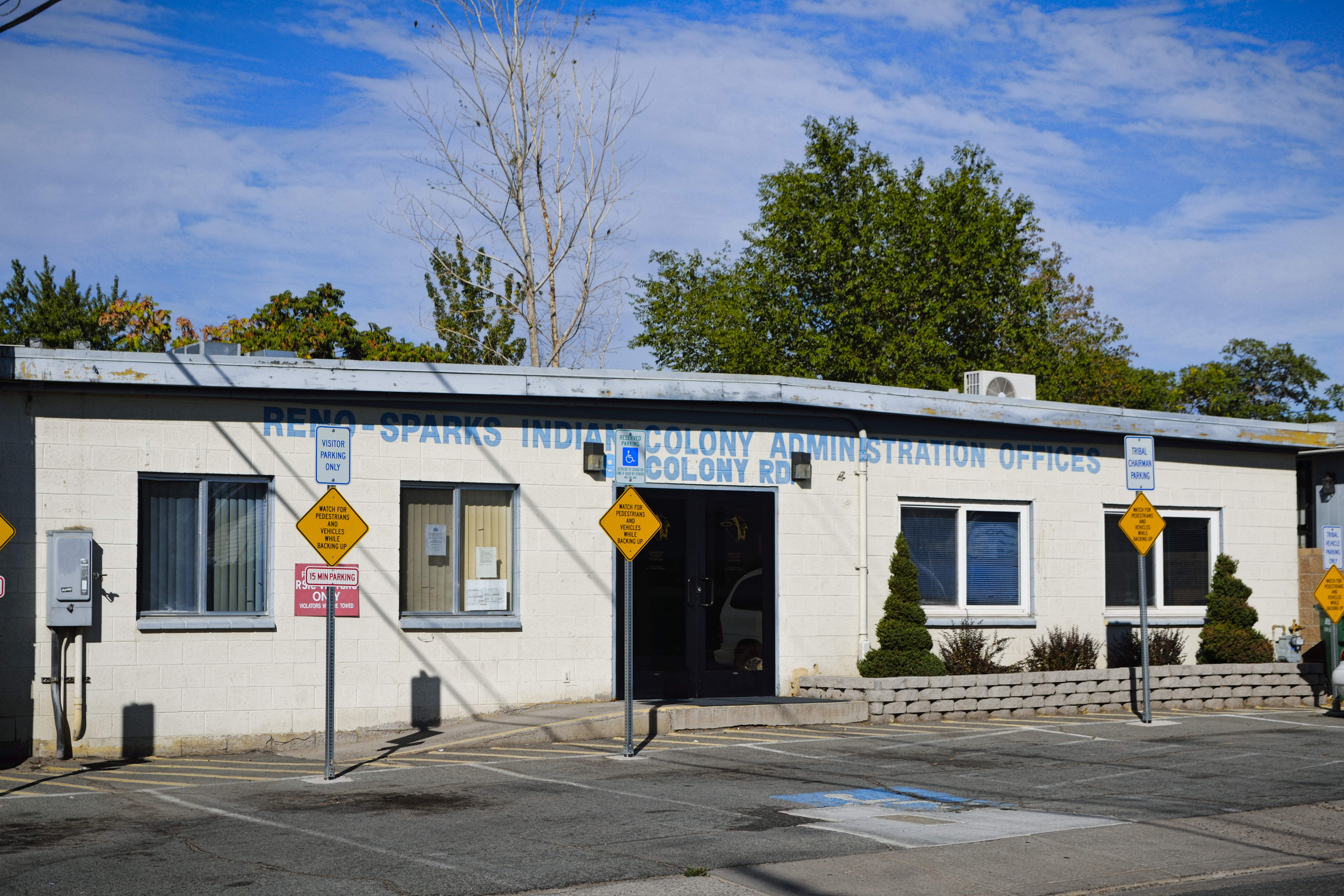 Reno-Sparks Indian Colony — tribal center building in Washoe County, Nevada.